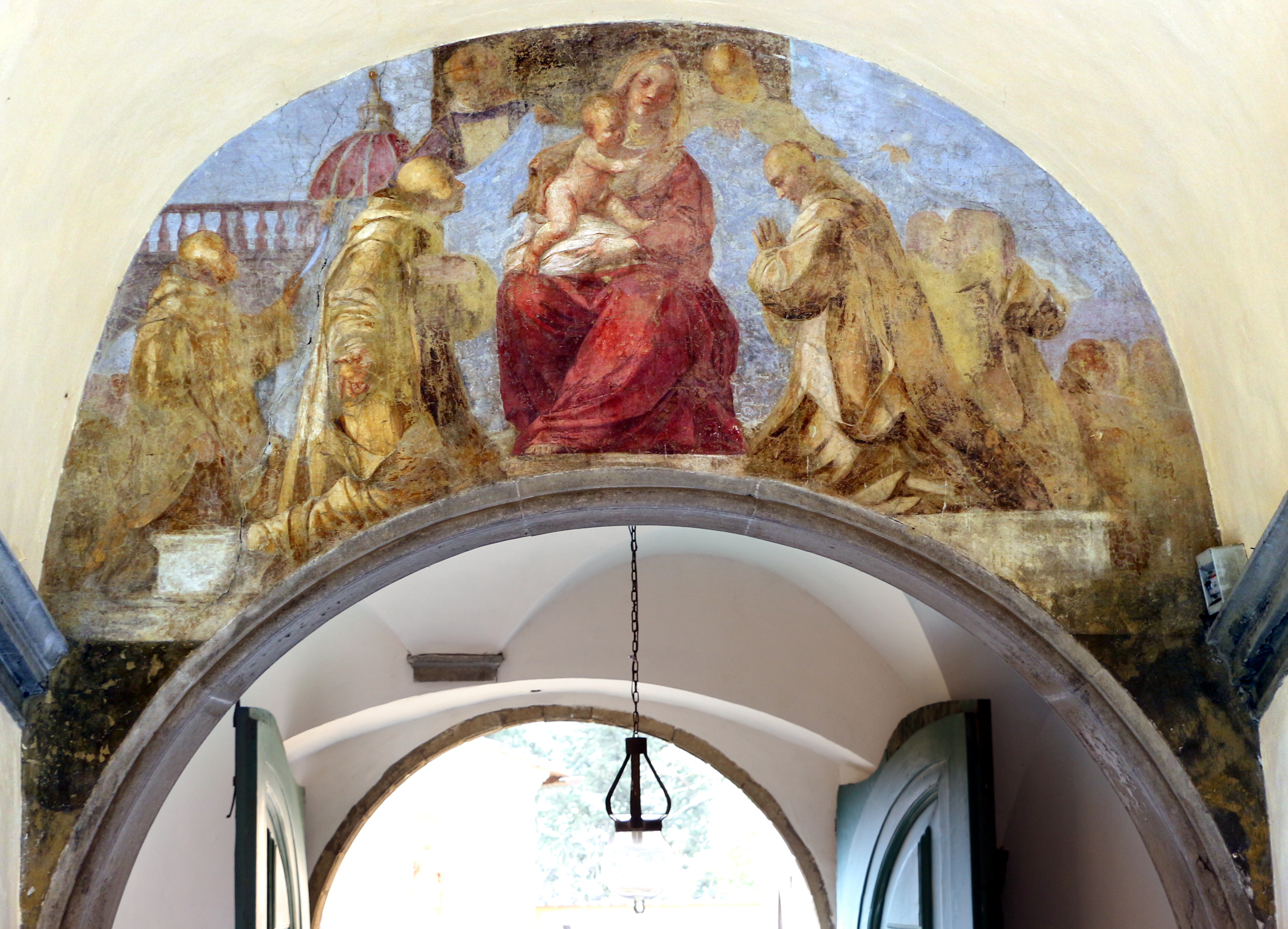 Certosa (Florence)